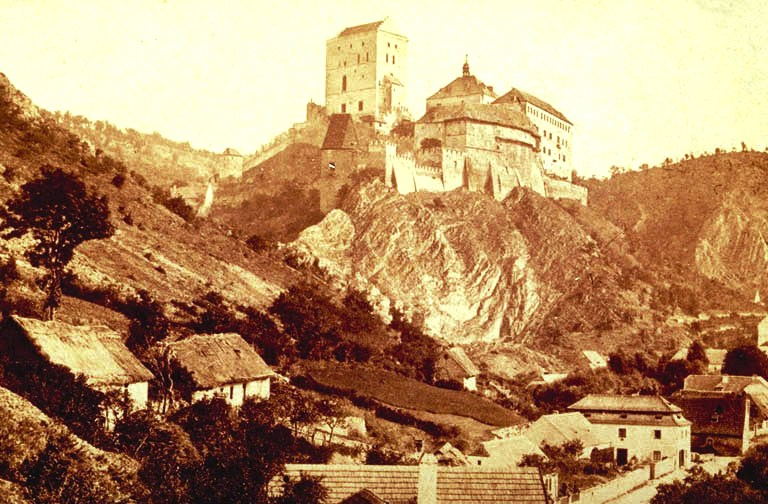 Karlštejn castle